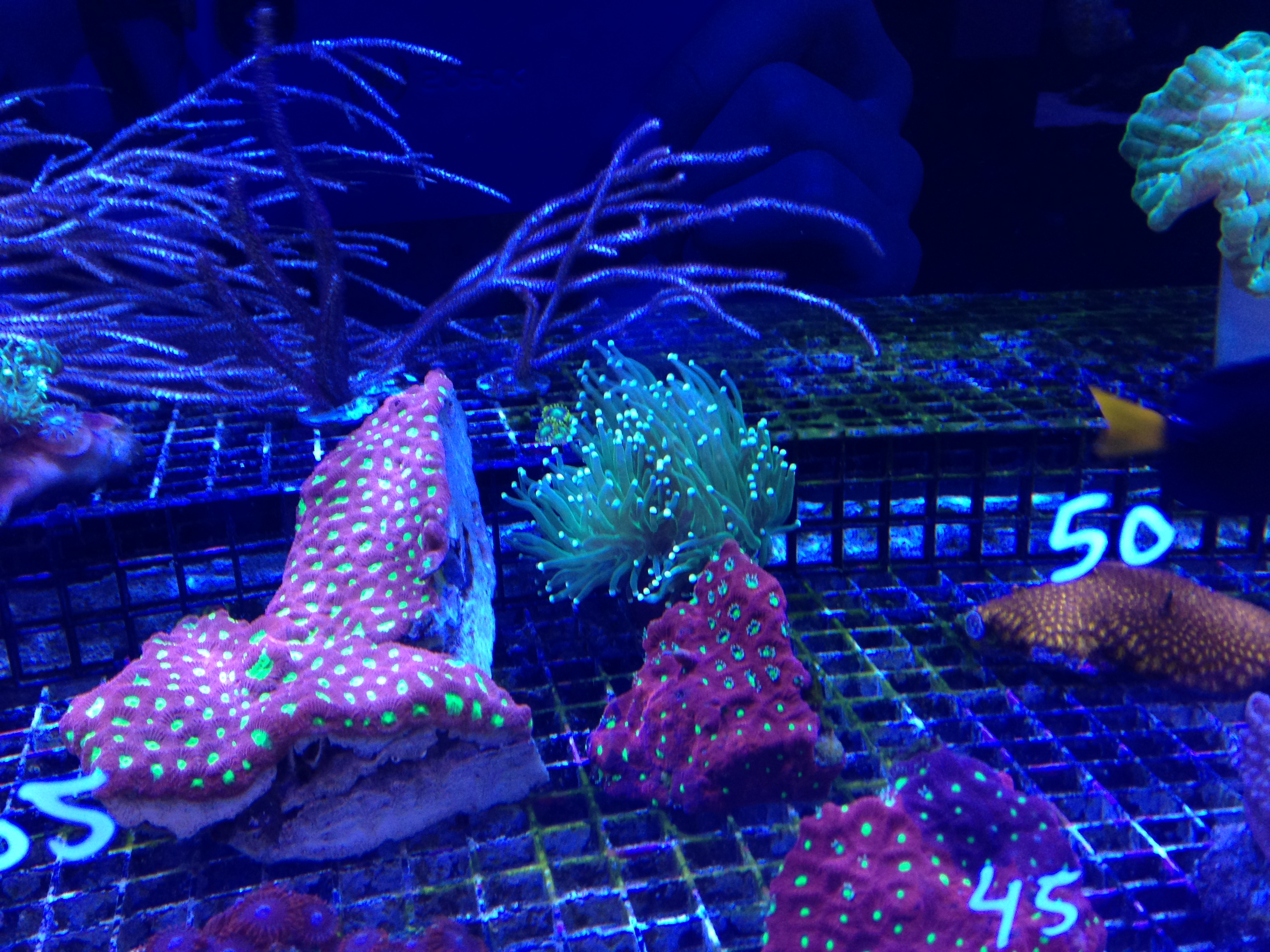 Coral at a store